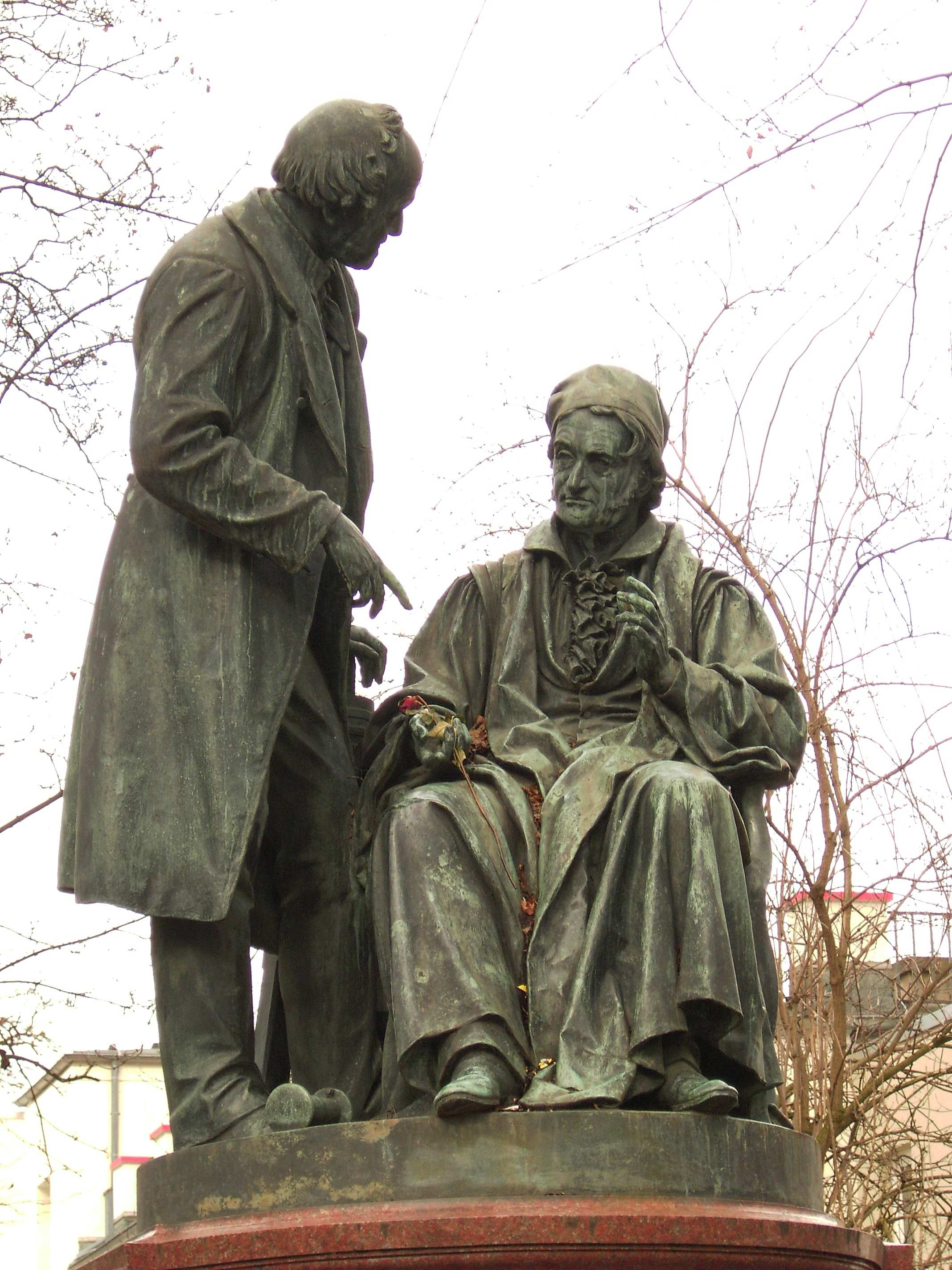 Göttingen, Gauß-Weber-Monument, Winter. The monument was created by Carl Ferdinand Hartzer in 1899.